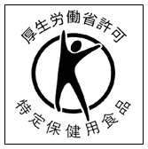 Seal of approved FOSHU (Food for Specified Health Uses) product in Japan